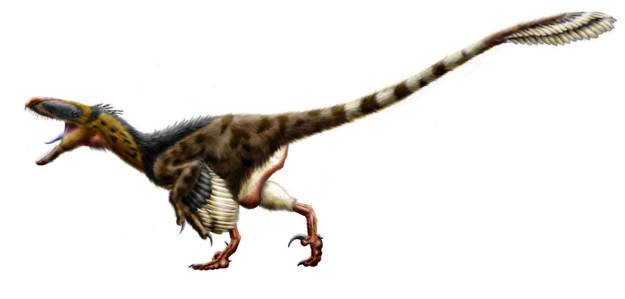 Illustration of the dromaeosaurid Achillobator.